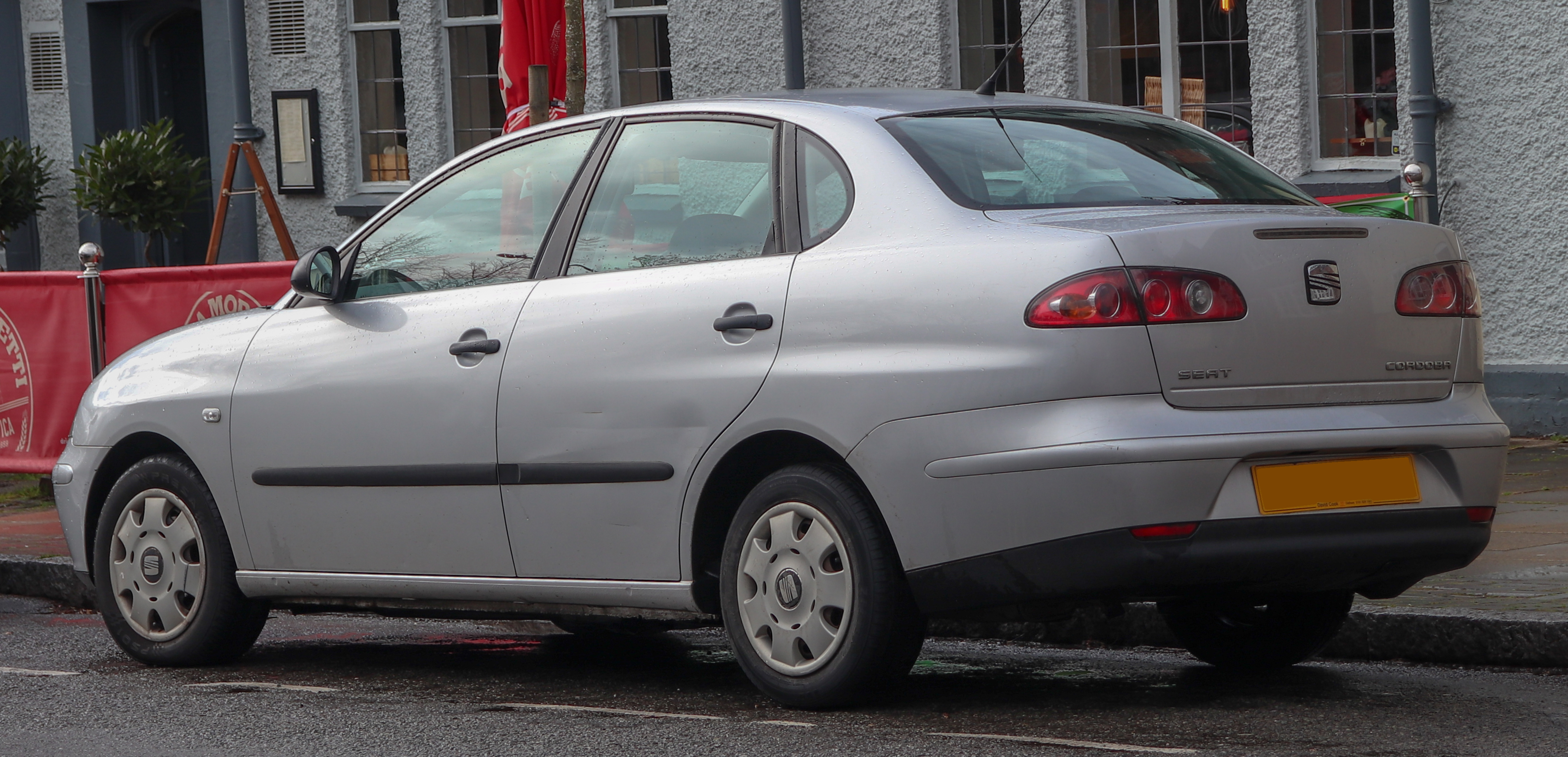 2003 SEAT Cordoba S 1.4 Rear